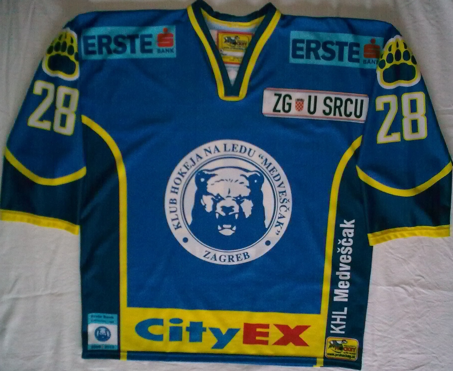 KHL Medveščak's home jersey for Season 2009-10